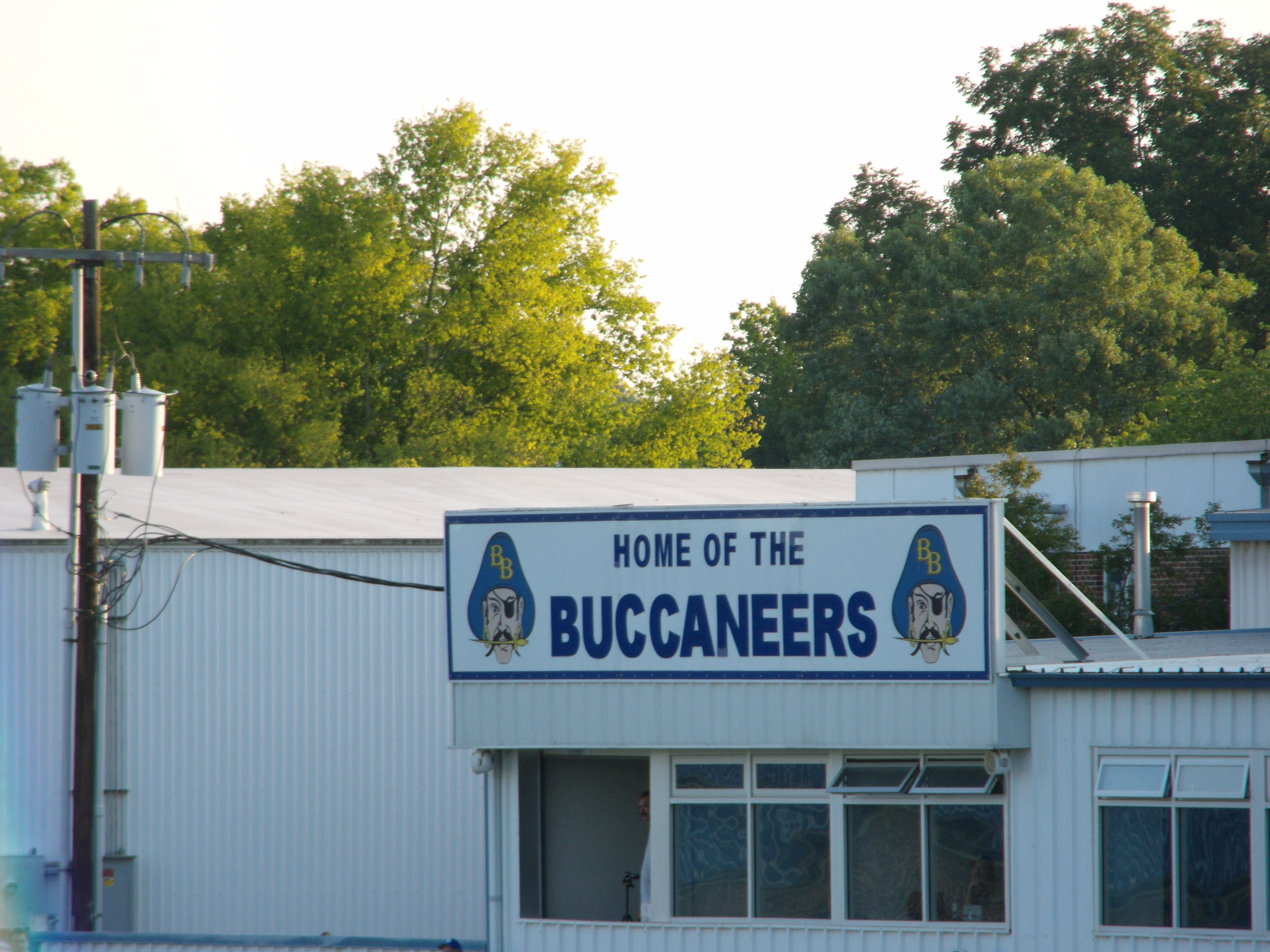 Boyd-Buchanan School football stadium pressbox.